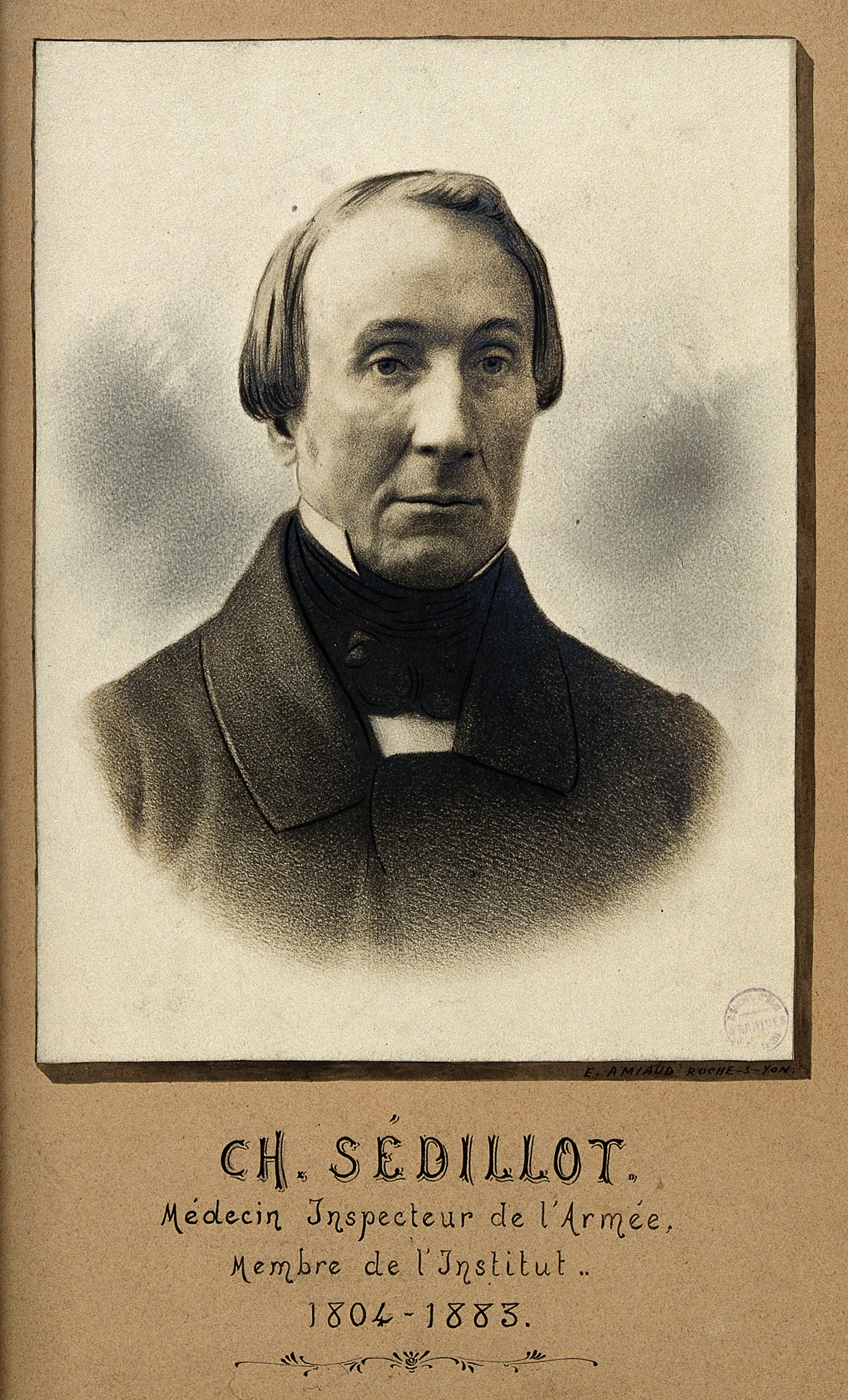 Charles-Emmanuel Sédillot. Photomechanical print with retouching in pencil by E. Amiaud. Iconographic Collections Keywords: portrait prints